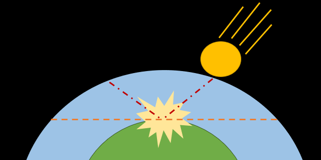 meteroite impact erosion of an atmosphere